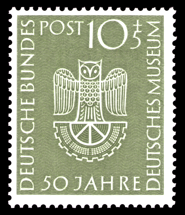 stamp for the 50th anniversary of the Deutsches Museum München Graphics by Cordier Ausgabepreis: 10+5 Pfennig First Day of Issue / Erstausgabetag: 7. Mai 1953 Michel-Katalog-Nr: 163